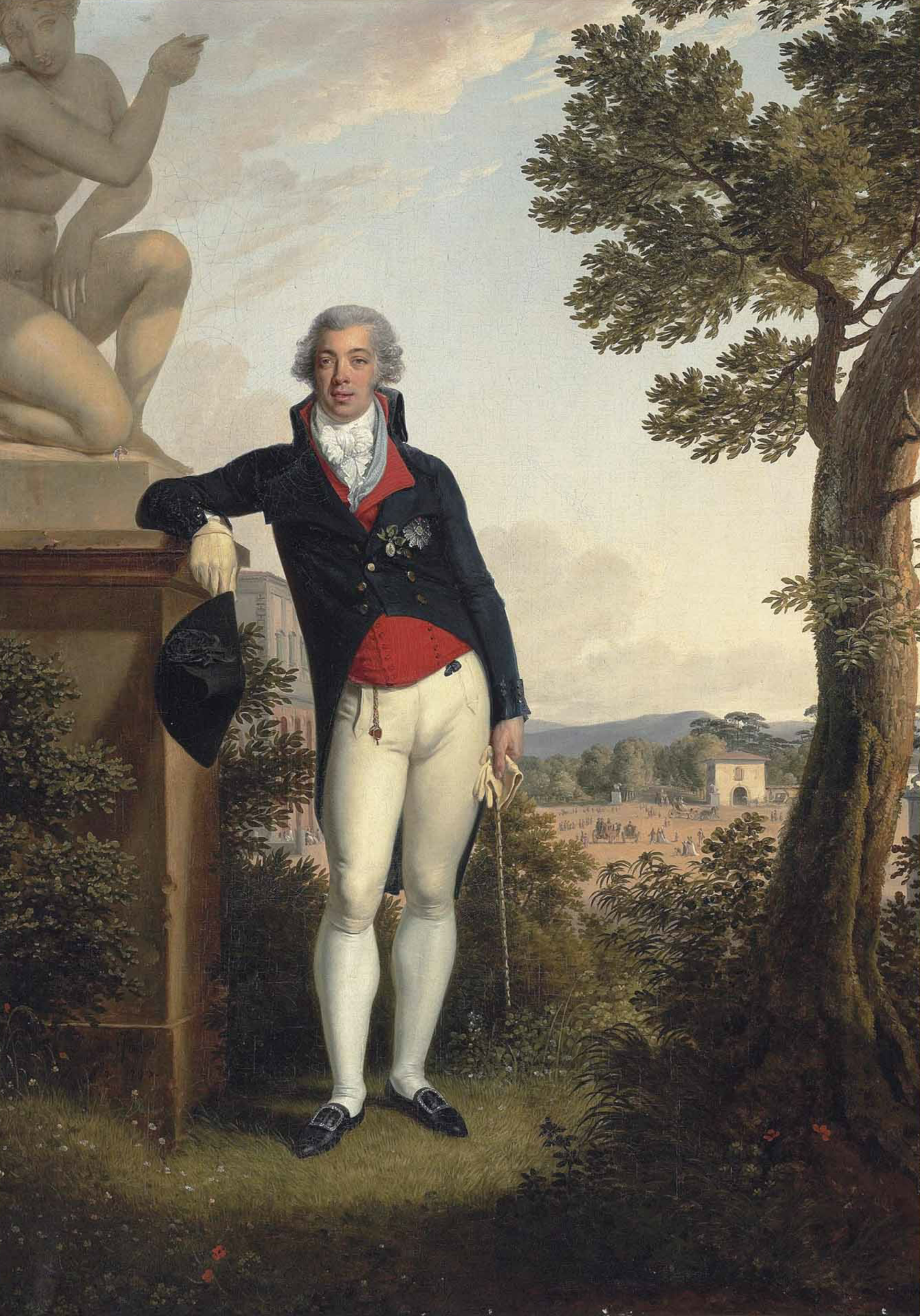 Portrait of Lourenço José Xavier de Lima, 1st Count of Mafra (1767?-1839), small full-length, in a red waistcoat and navy coat, wearing the decorations of the Order of Aviz, leaning against a pedestal with a sculpture of the Crouching Venus, in the campagna outside Florence.